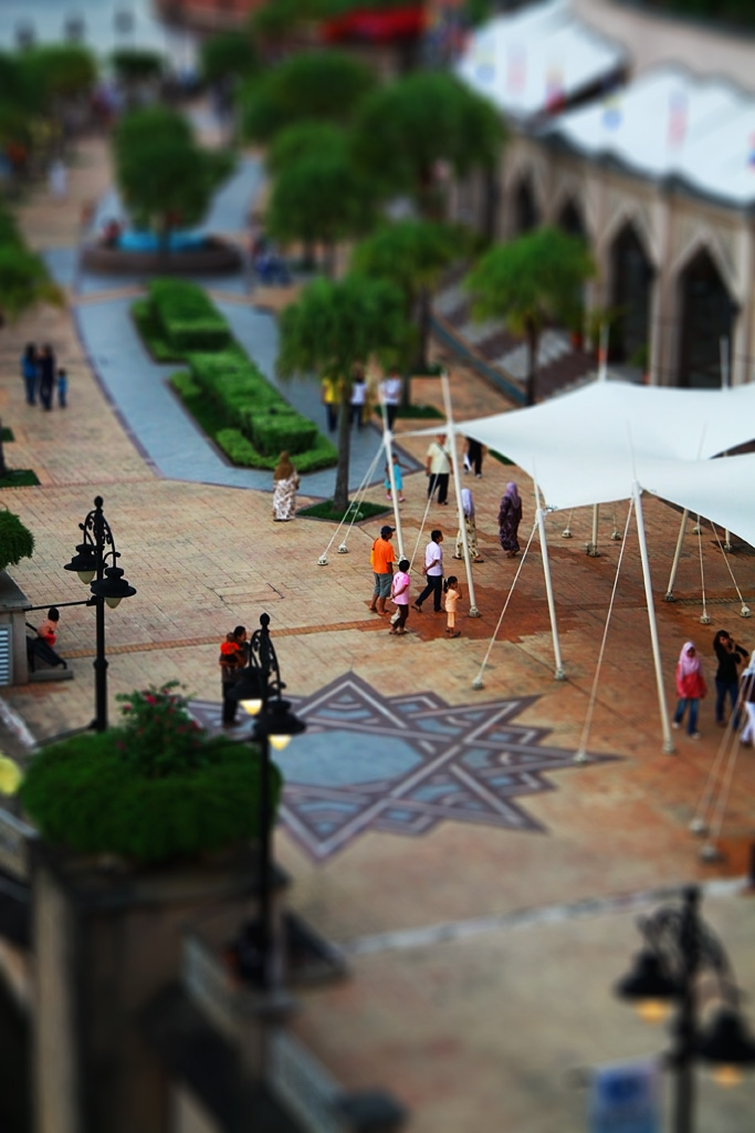 Putrajaya Walk, Tilt Shifted